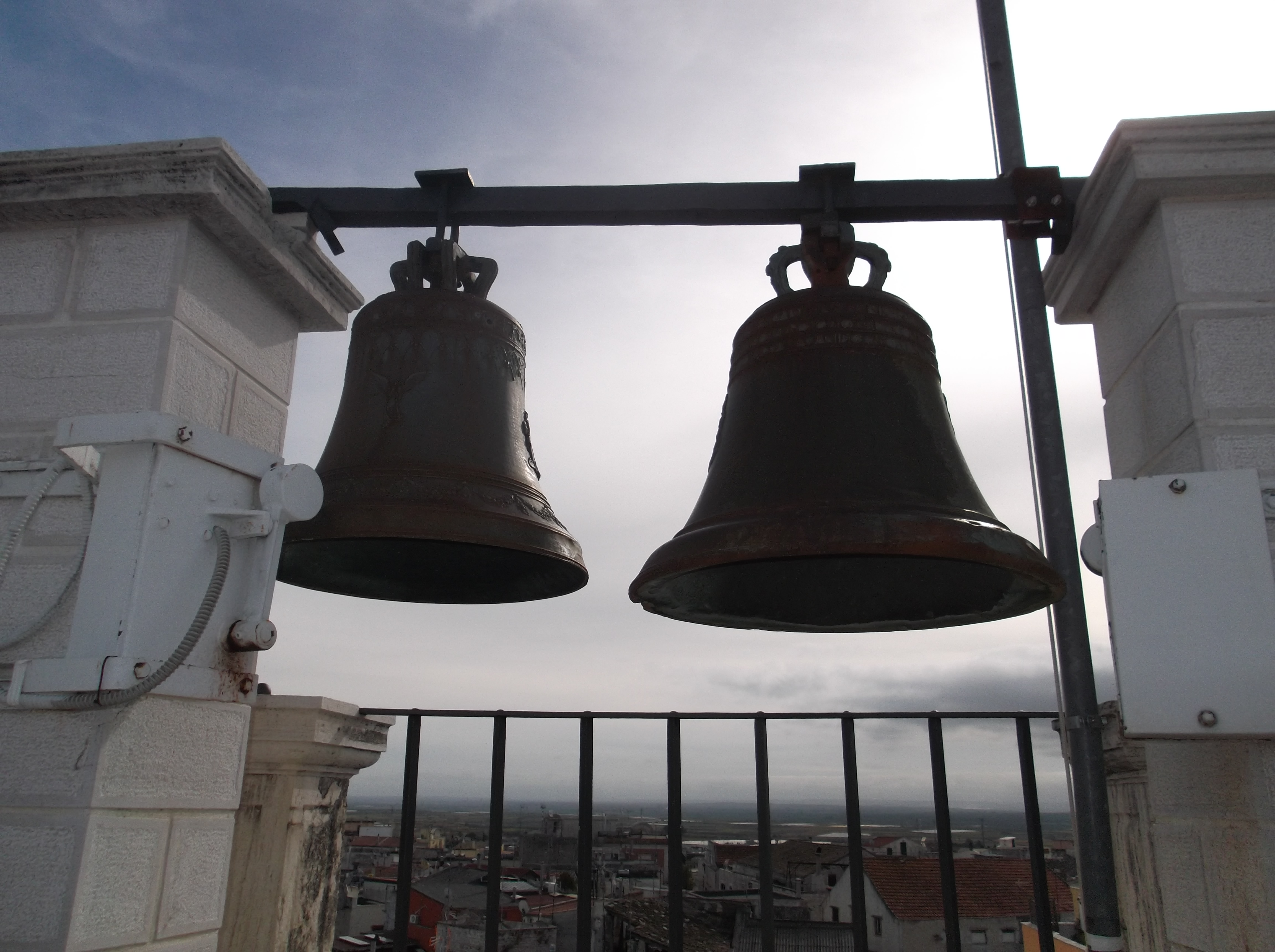 Clock tower's bells in Ruvo di Puglia